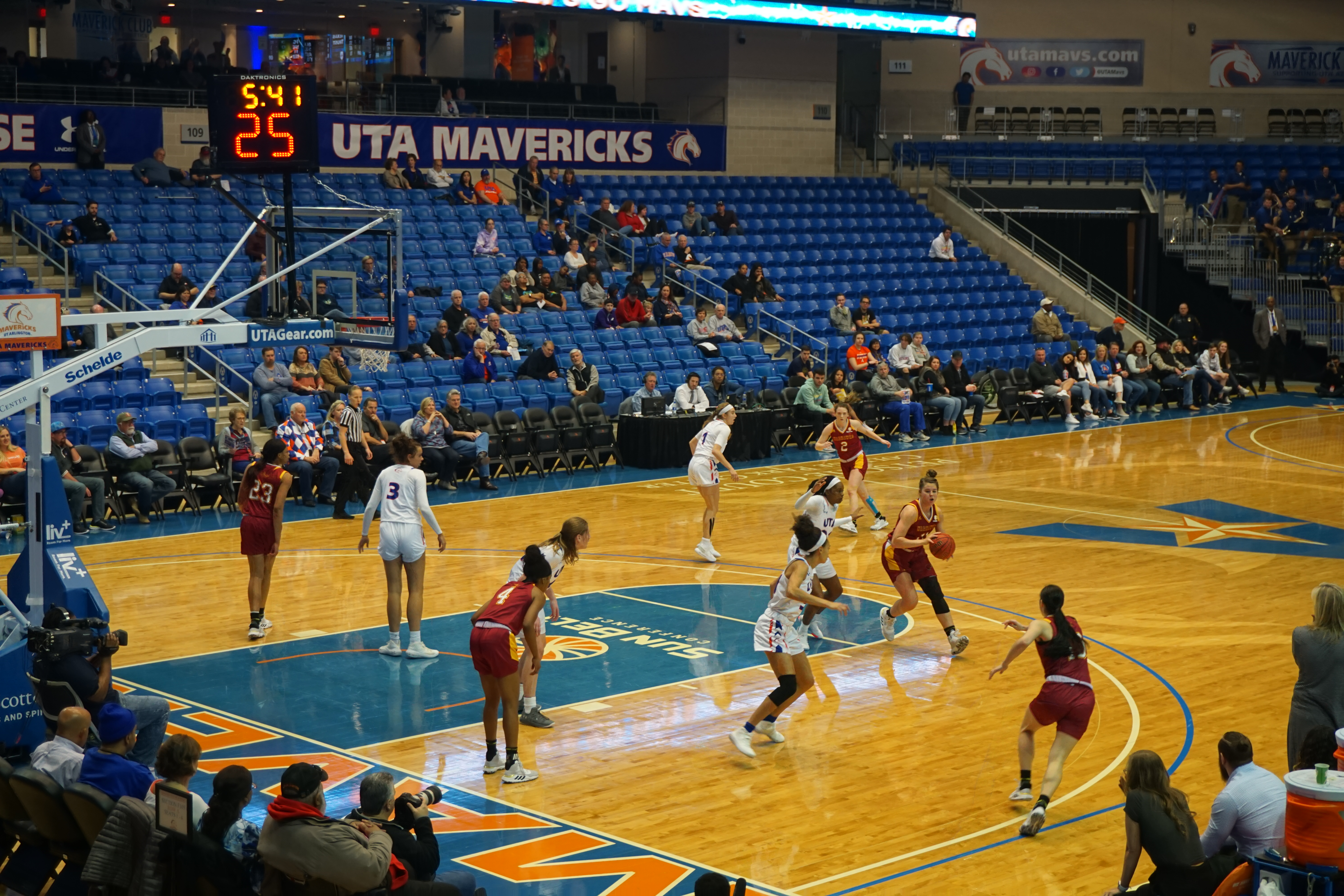 In-game action during the Louisiana–Monroe Warhawks vs. UT Arlington Mavericks women's basketball game at College Park Center in Arlington, Texas (United States). UT Arlington won 72–34.